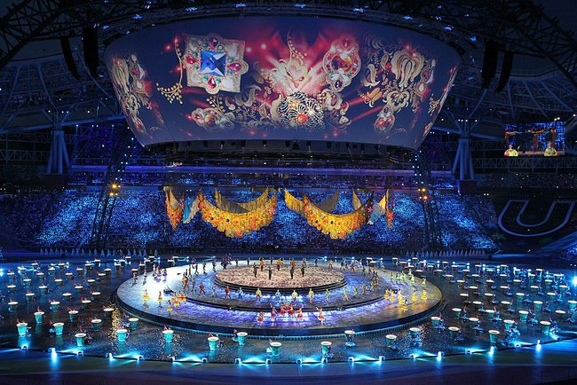 Opening of 2013 Universiade in Kazan